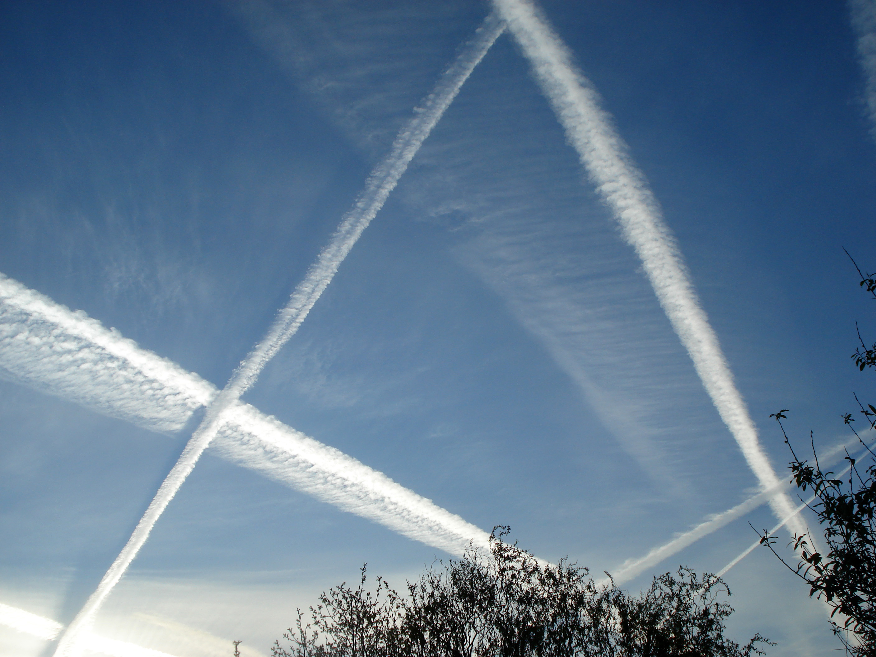 Contrails near Schiphol Airport, The Netherlands